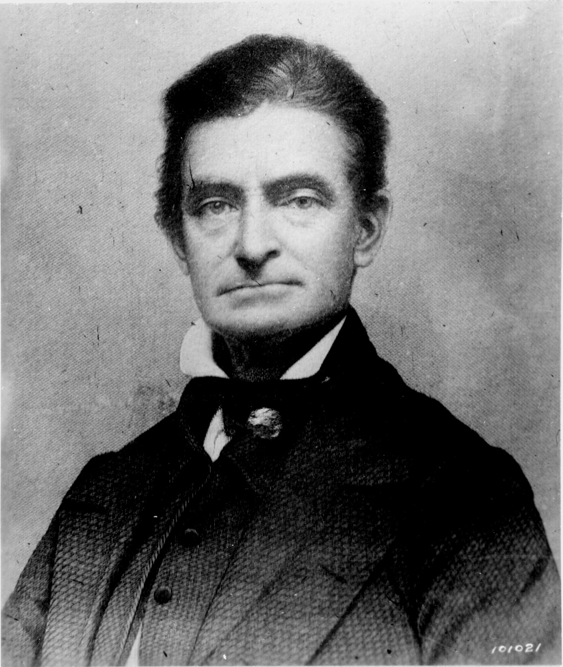 Abolitionist John Brown, bust-length. Engraving from daguerreotype.